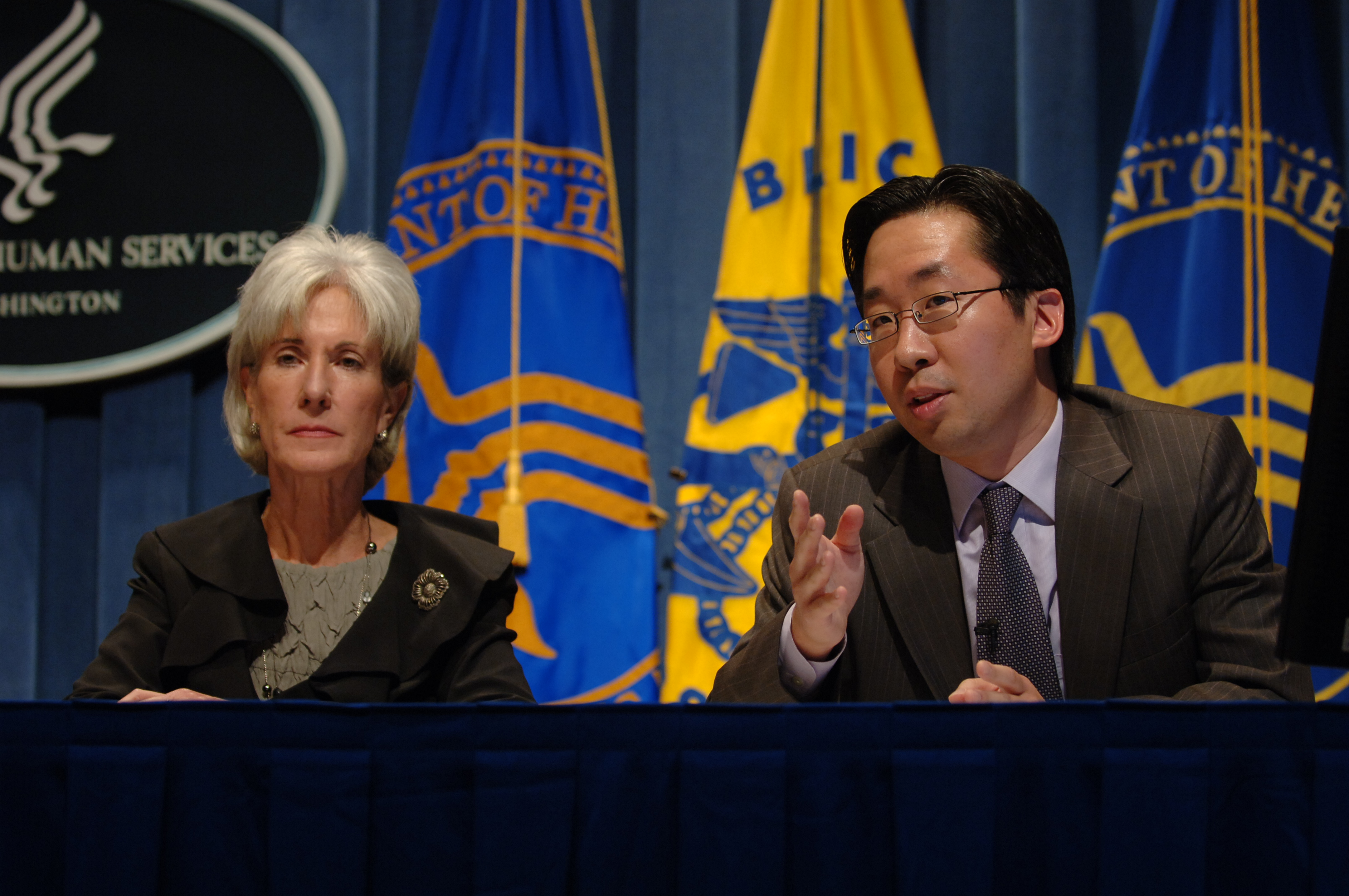 Kathleen Sebelius HHS photo by Chris Smith